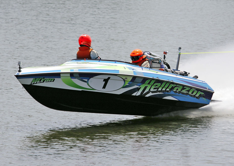 Multiple Southern 80 winner